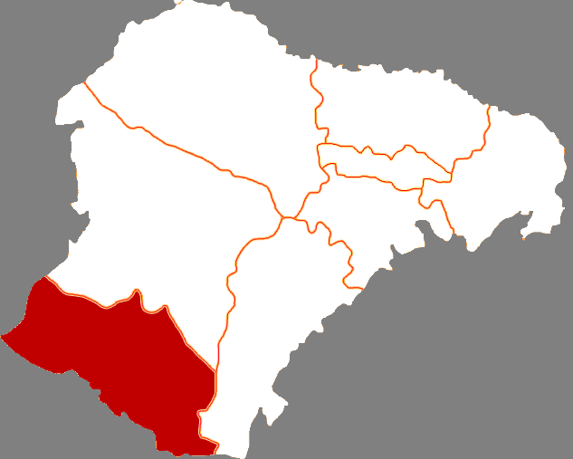 Locator map of Otog Front Banner in Ordos City, Inner Mongolia, China